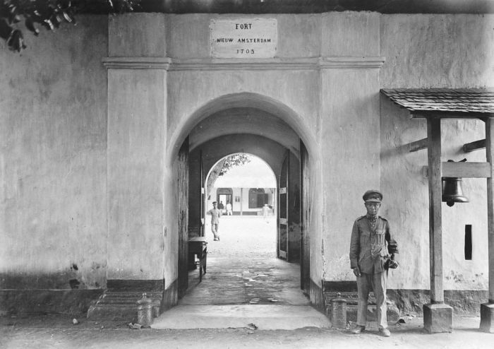 A soldier stands guard at the main gate of Fort "Amsterdam" Menado, founded in 1703